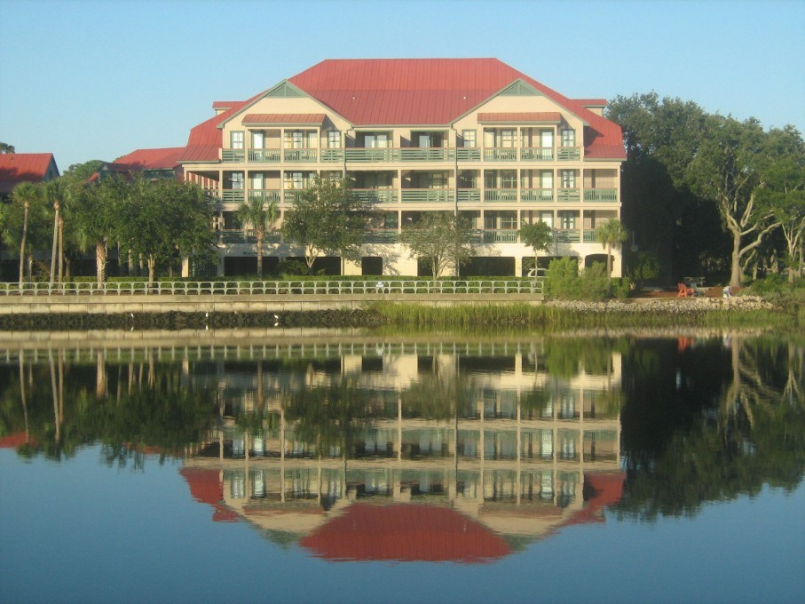 View of Disney's Hilton Head Island Resort from 23 Shelter Cove Ln.